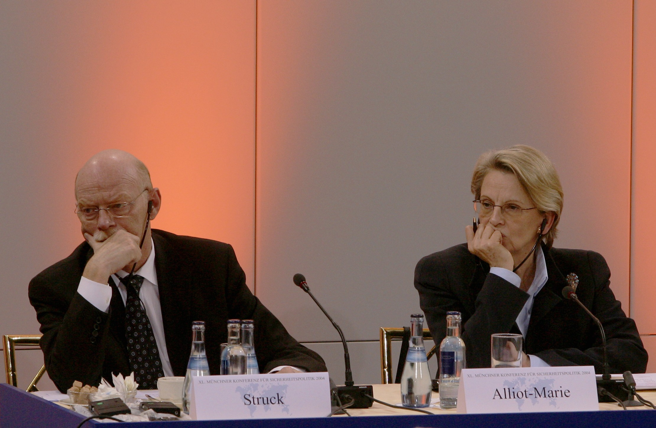 40th Munich Security Conference 2004: Dr. Peter Struck, Federal Minister of Defense, Germany and Michèle Alliot-Marie, Minister of Defense, French Republik.